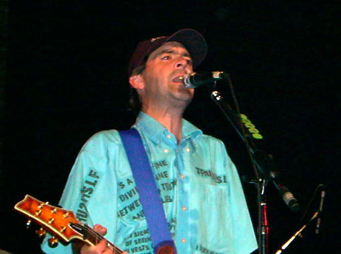 Ian McCallum performing with Stiff Little Fingers at Bogarts in Cincinnati, Ohio.